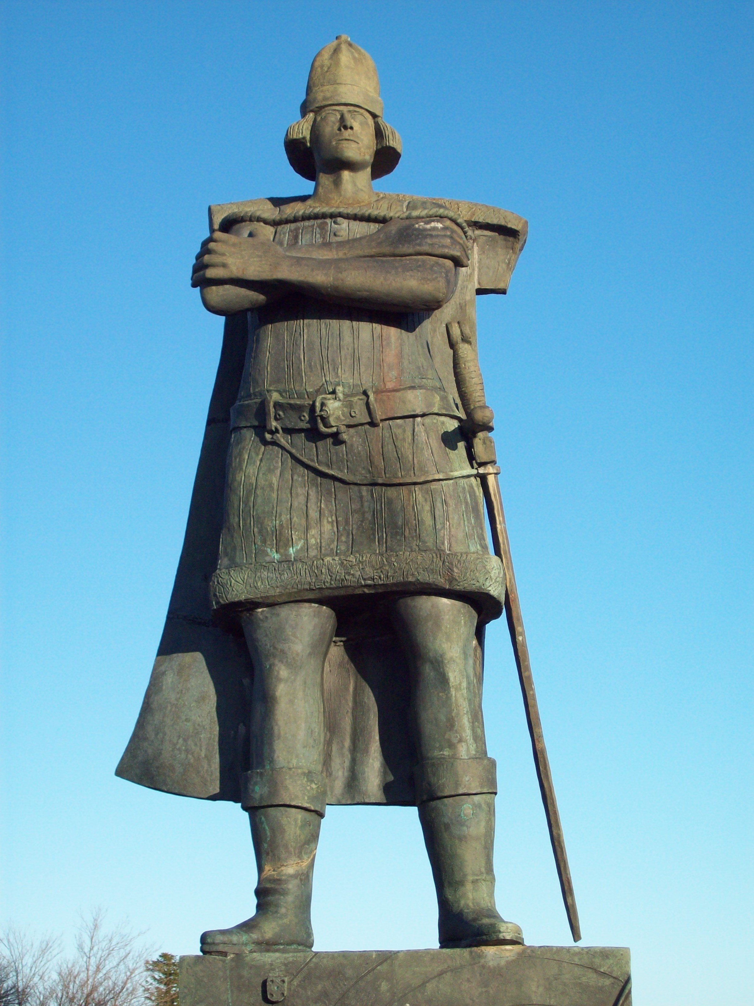 Gaspar Corte-Real statue across from Confederation Building.